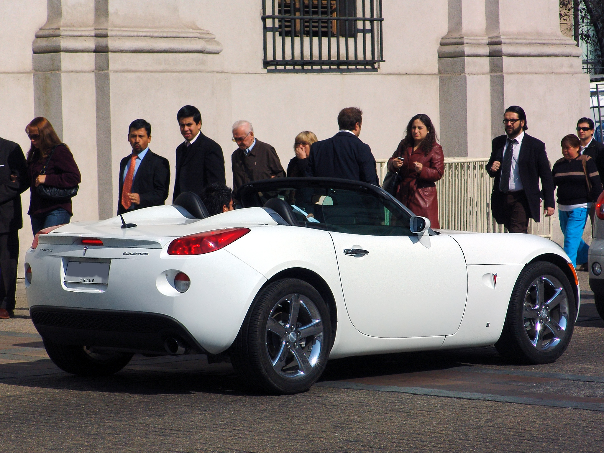 Pontiac Solstice 2010